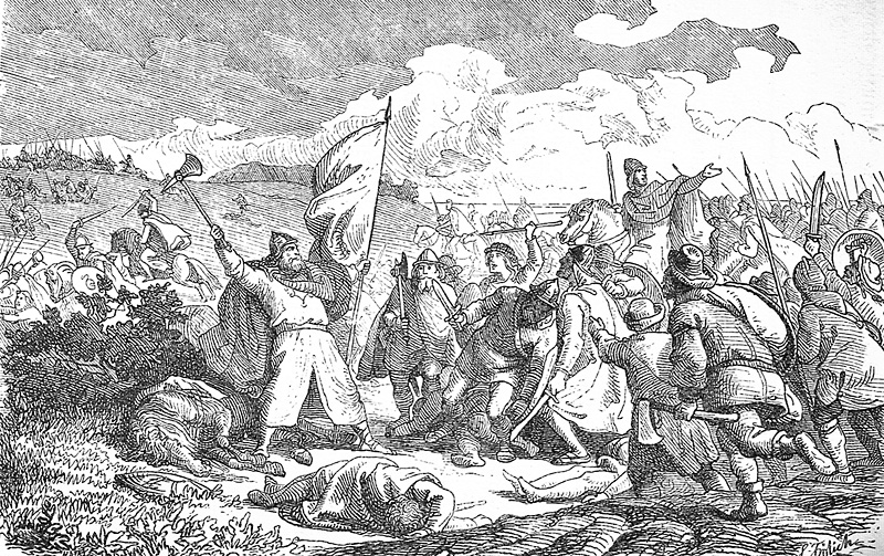 Battle of Grathe Heath as the artist Lorenz Frølich imagined.